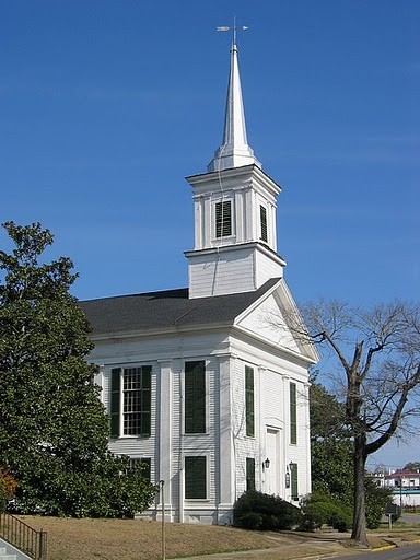 First Presbyterian Church in Eutaw, Alabama, United States.